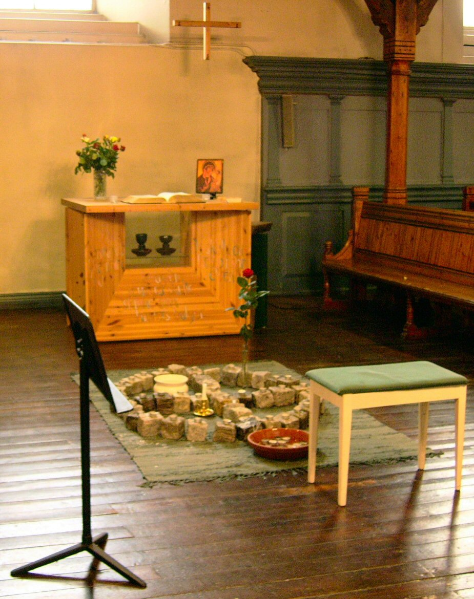 Cobble stone altar in Our Lady's church in Trondheim, Norway.